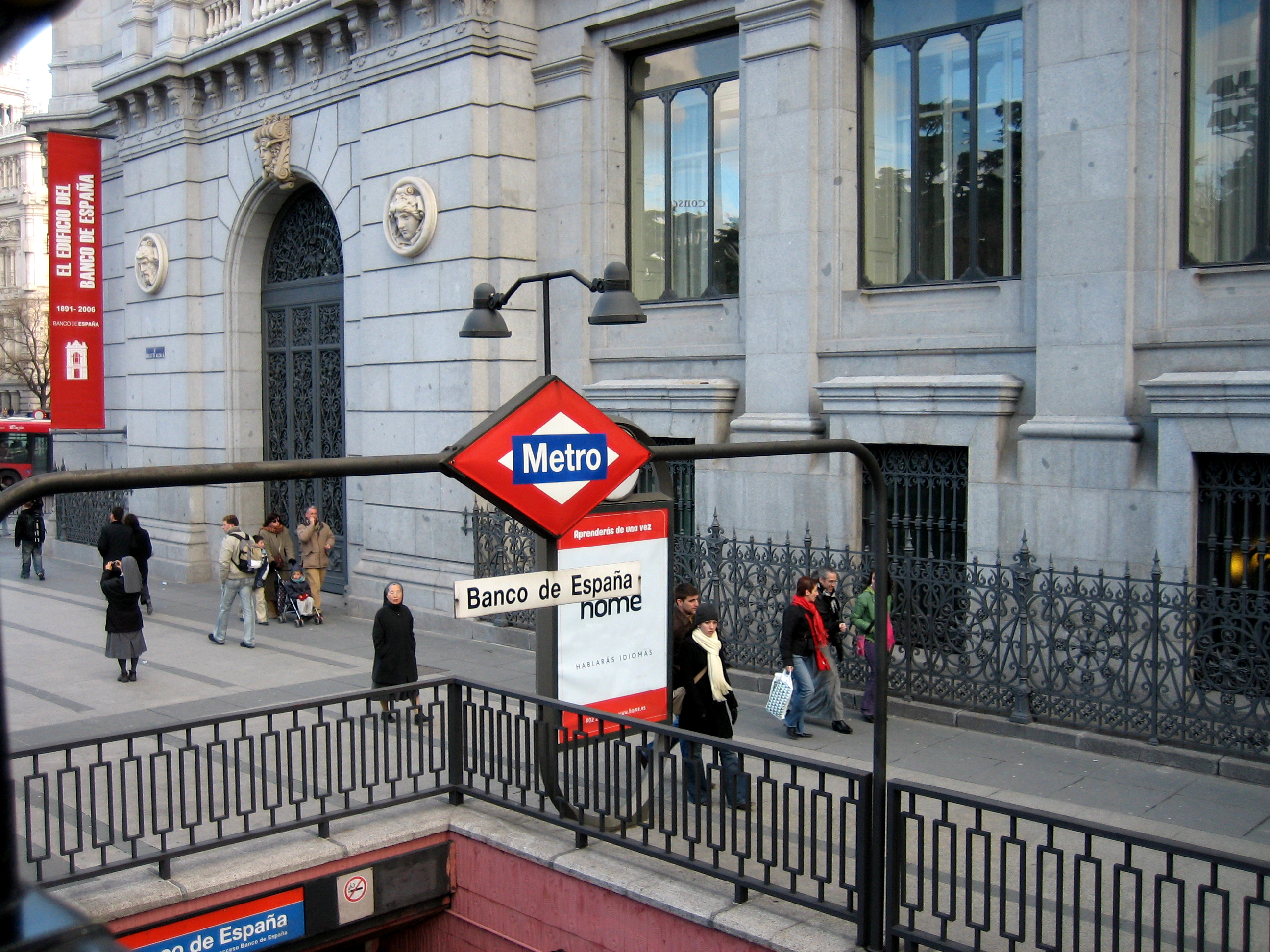 Entrance to Banco de España underground station at Calle de Alcalá (street) in Madrid (Spain). At the right, north façade of the Bank of Spain headquarters.